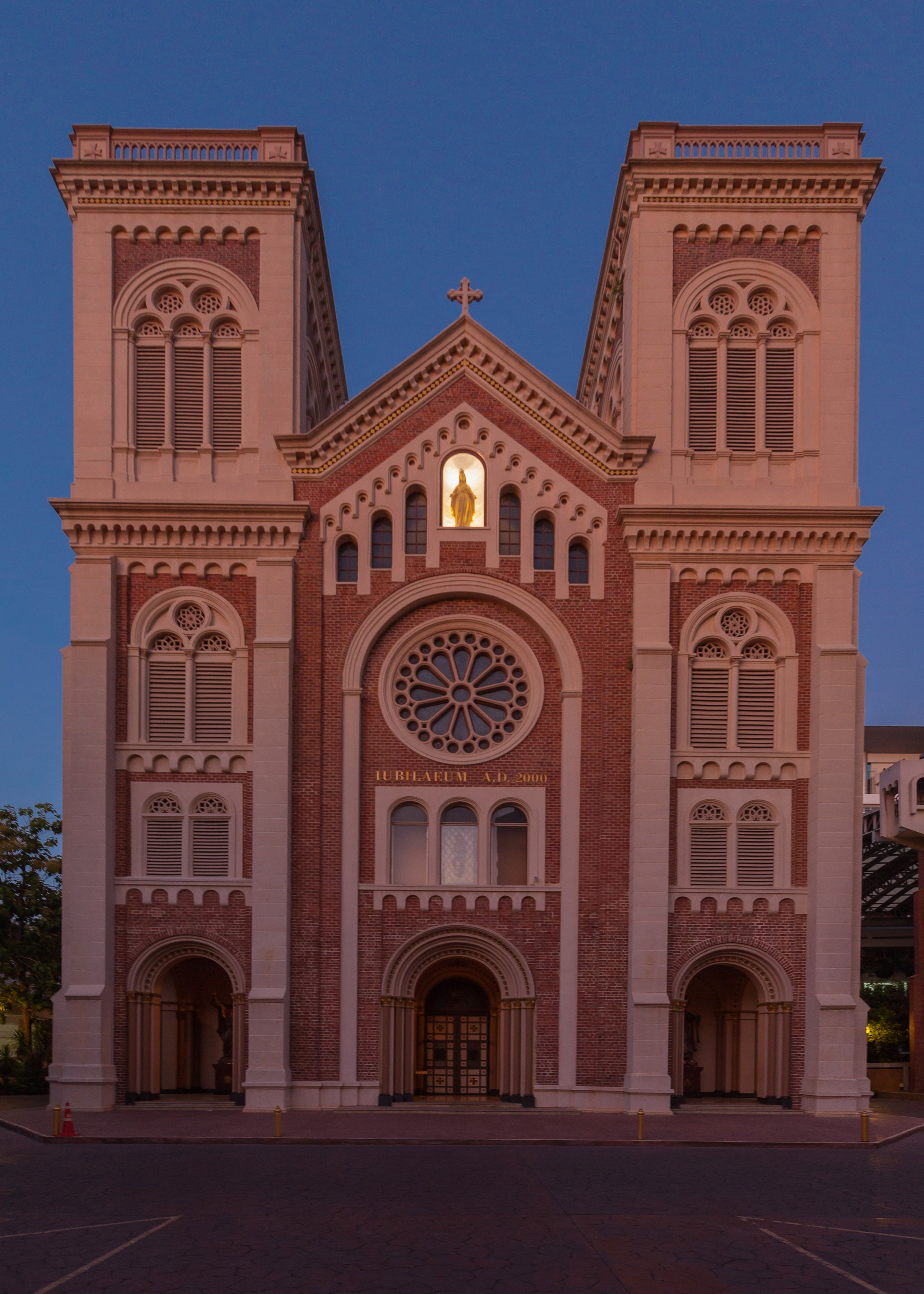 Assumption Cathedral, Bang Rak District, Bangkok, Thailand.